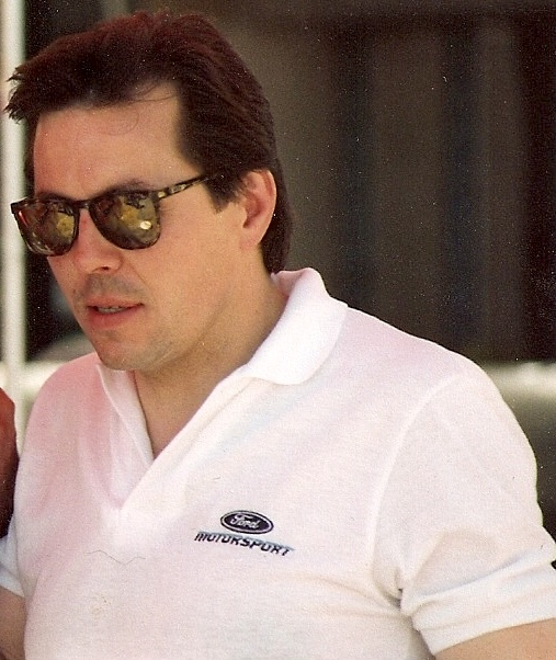 NASCAR driver, the late Alan Kulwicki - Sears Point 1991